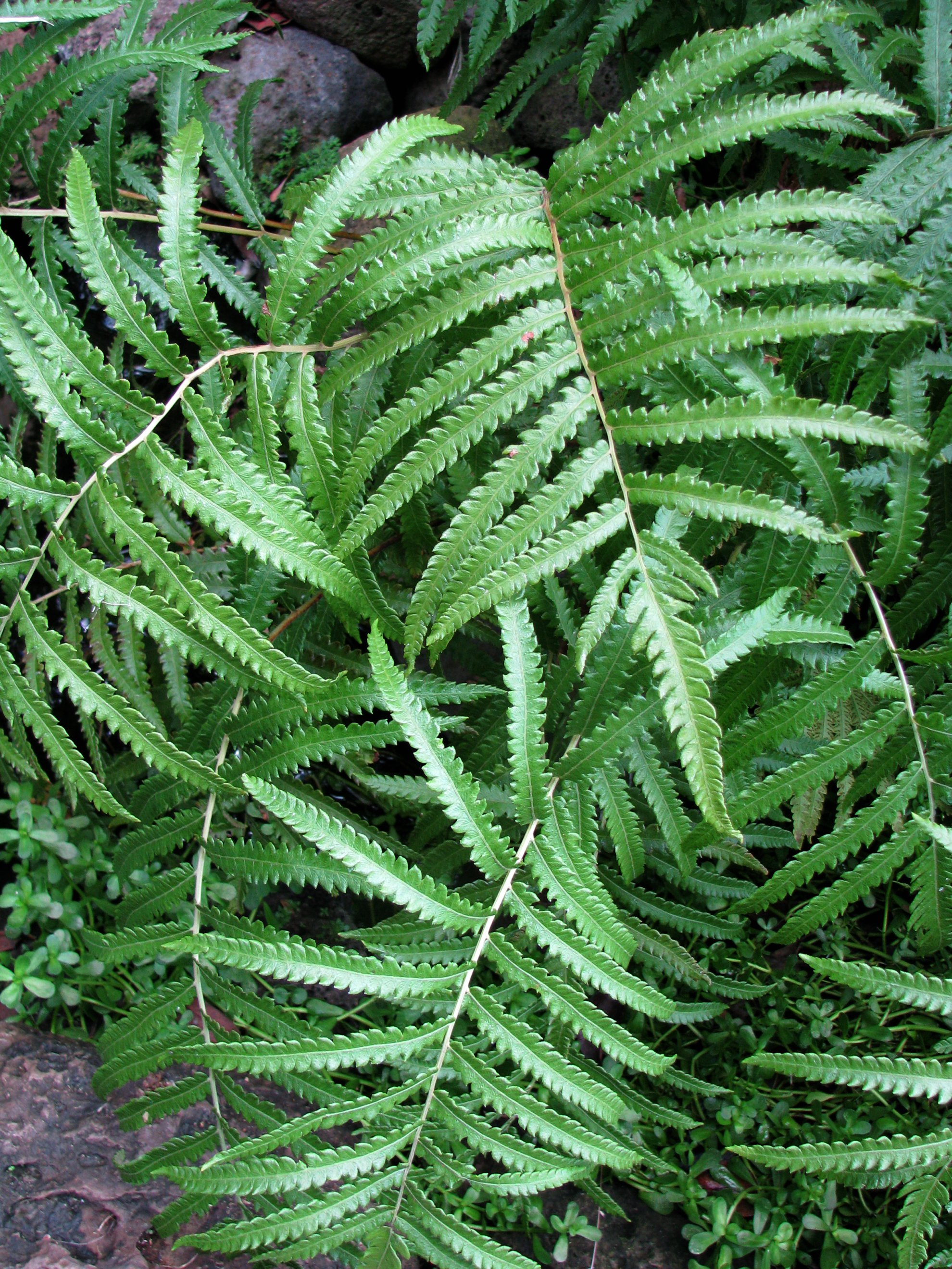 Neke or Willdenow's maiden fern Thelypteridaceae Indigenous to the Hawaiian Islands Oʻahu (Cultivated) NPH00005